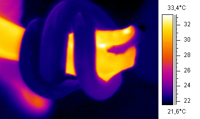 Thermogram of a snake wrapped around a human arm